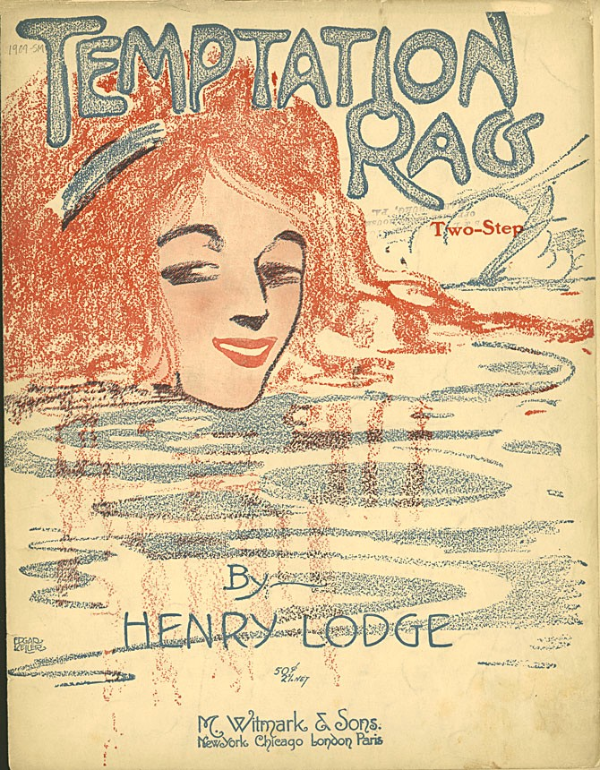 Temptation Rag, 1909